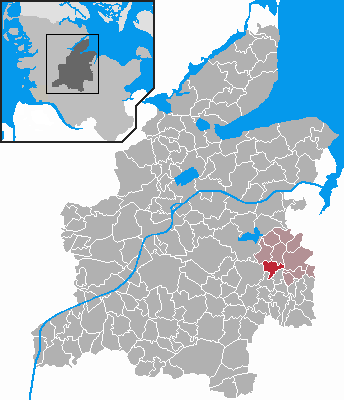 Locator maps of municipalities in Schleswig-Holstein - District Rendsburg-Eckernförde